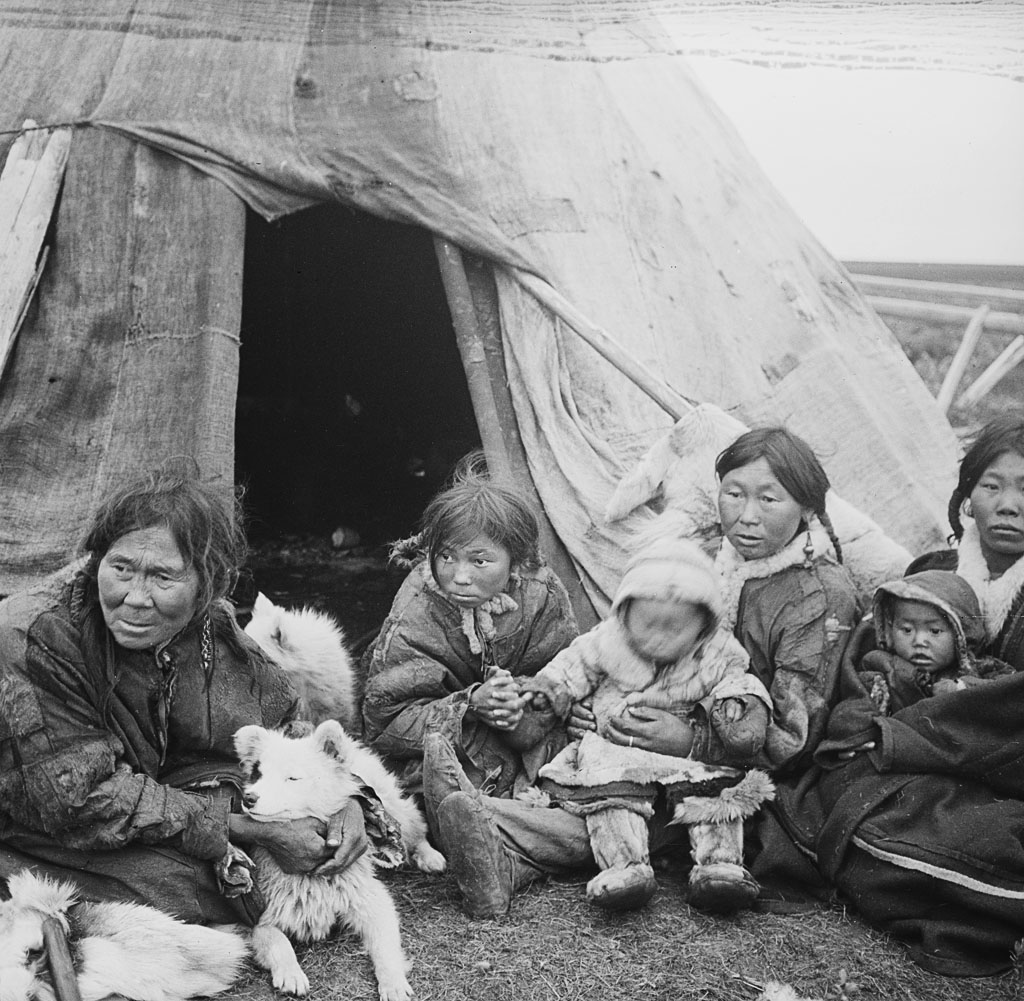 Motiv / Motif: En av kvinnene holder en hund om halsen. Ett av bildene fra Nansens reise til Sibir i perioden 2. august - 26. oktober 1913. Dato / Date: 28. august 1913 Fotograf / Photographer: Fridtjof Nansen (1861-1930) Sted / Place: Russland, Nosonovskij Pesok Eier / Owner Institution: Nasjonalbiblioteket / National Library of Norway Lenke / Link: Bildesignatur / Image Number: bldsa_FN_g03f023 / 3f048